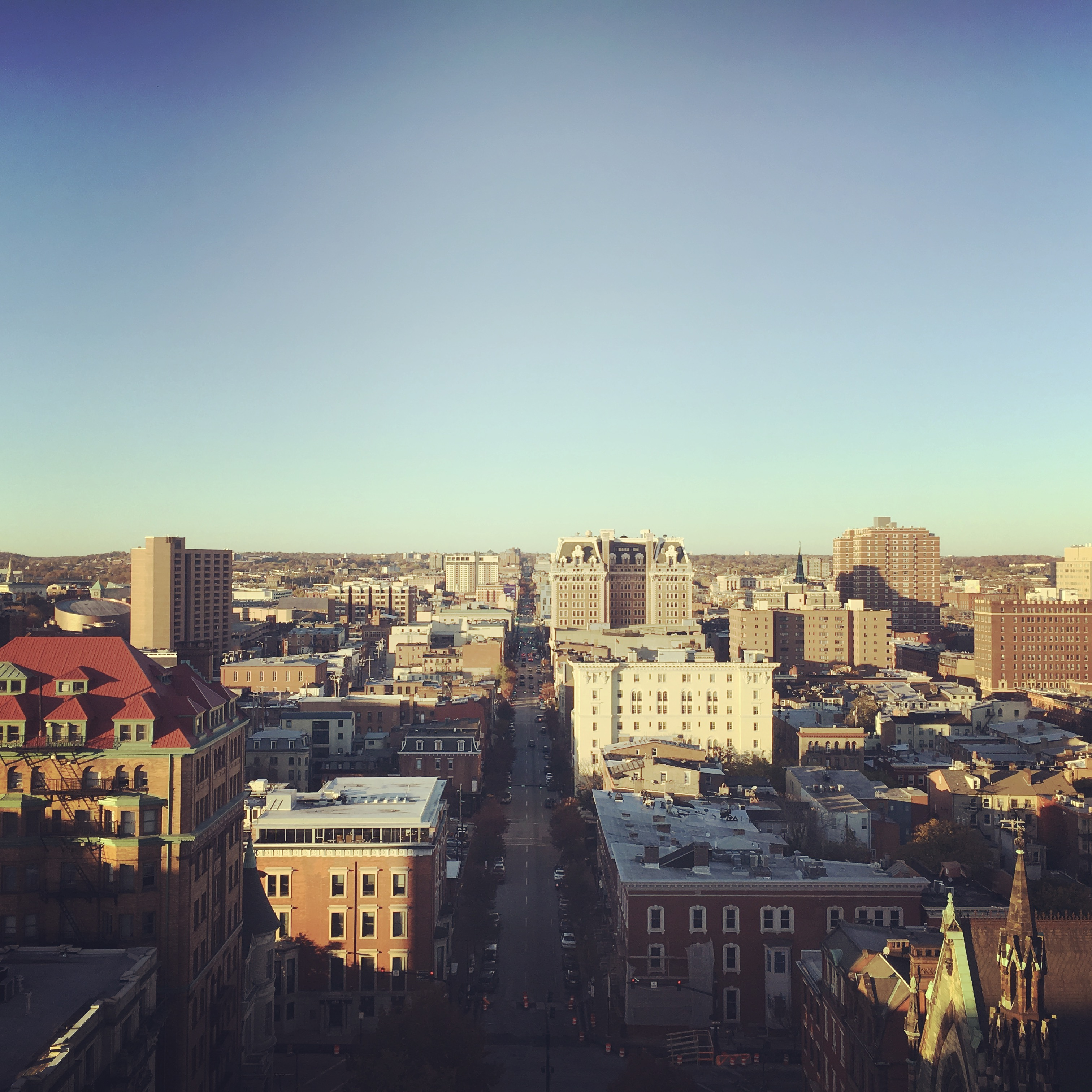 View from the top of the monument by iPhone photographer Mofan Lai, a Maryland State Arts Council member